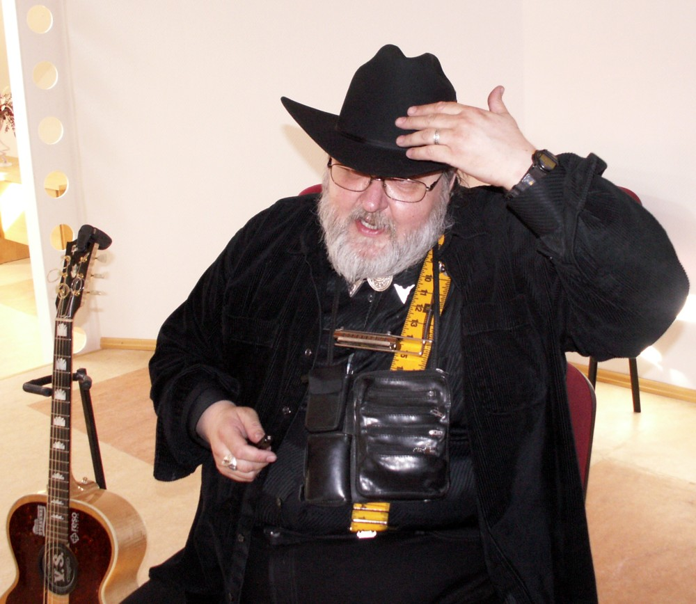 Virgis Stakėnas, muzician, songwriter, bard of Šiauliai, Lithuania